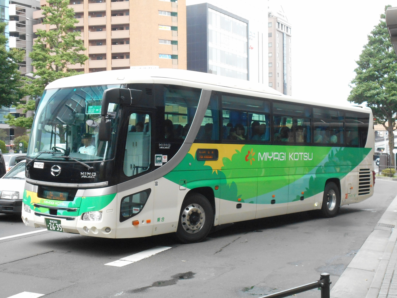 Miyagi kotsu Hino S'elega(QRG-RU1ESBA)highwaybus "Castle"(Sendai-Hirosaki)